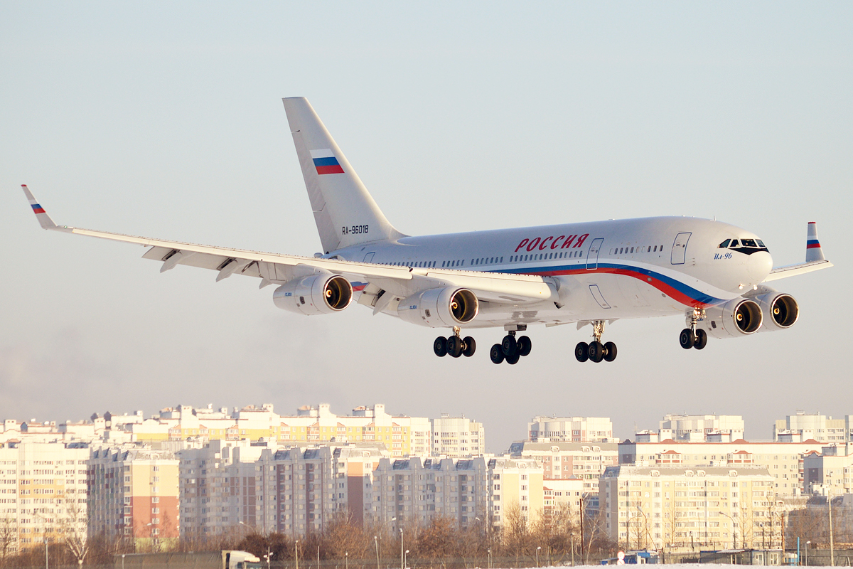 Rossiya - Special Flight Squadron, RA-96018, Ilyushin Il-96-300PU